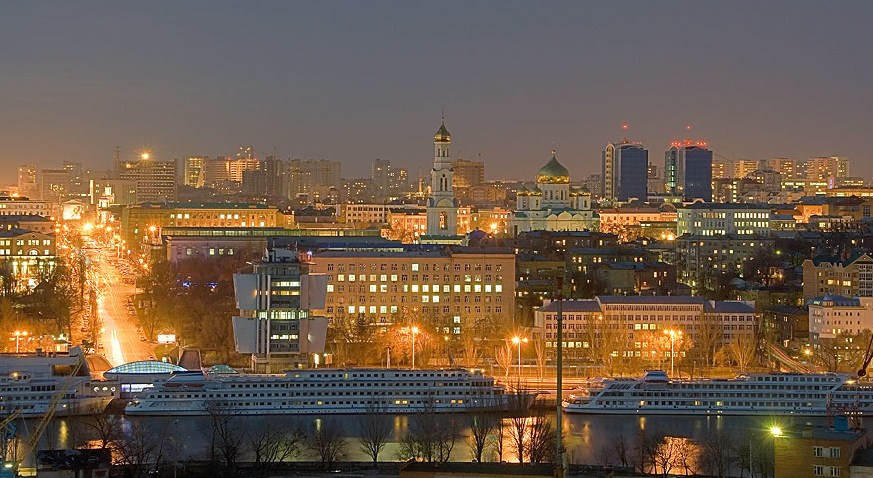 Rostov-on-Don skyline